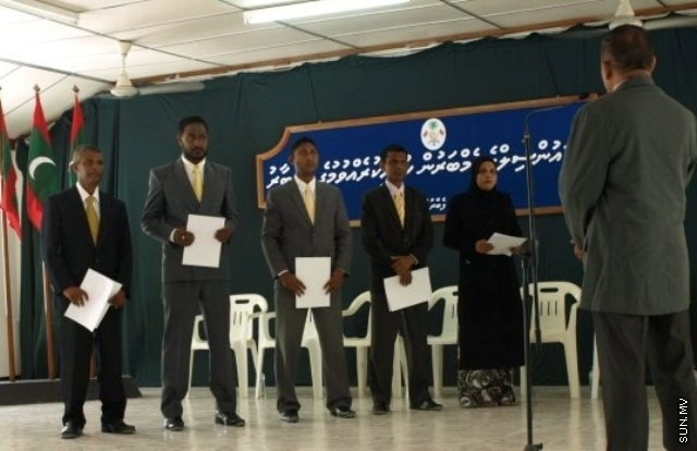 Oath taking ceremony of Thulhaadhoo Council.